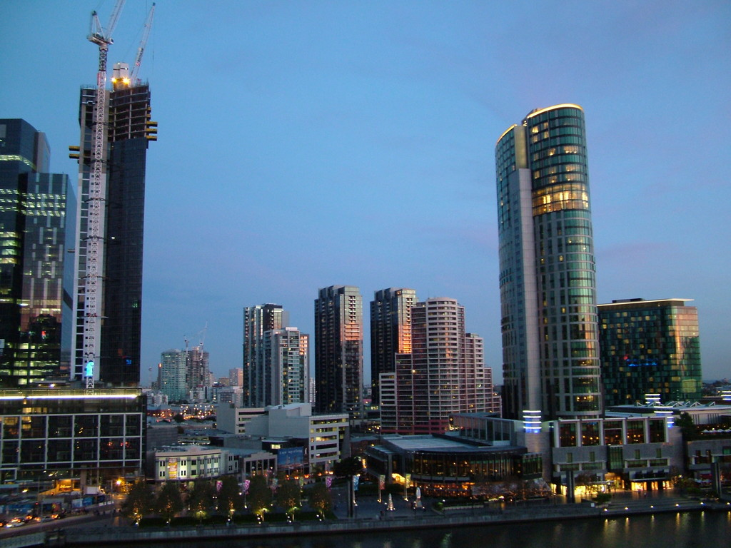 Freshwater Place (on the left) under construction with Crown Towers hotel on the right.Freshwater Place (on the left) under construction with Crown Towers hotel on the right.